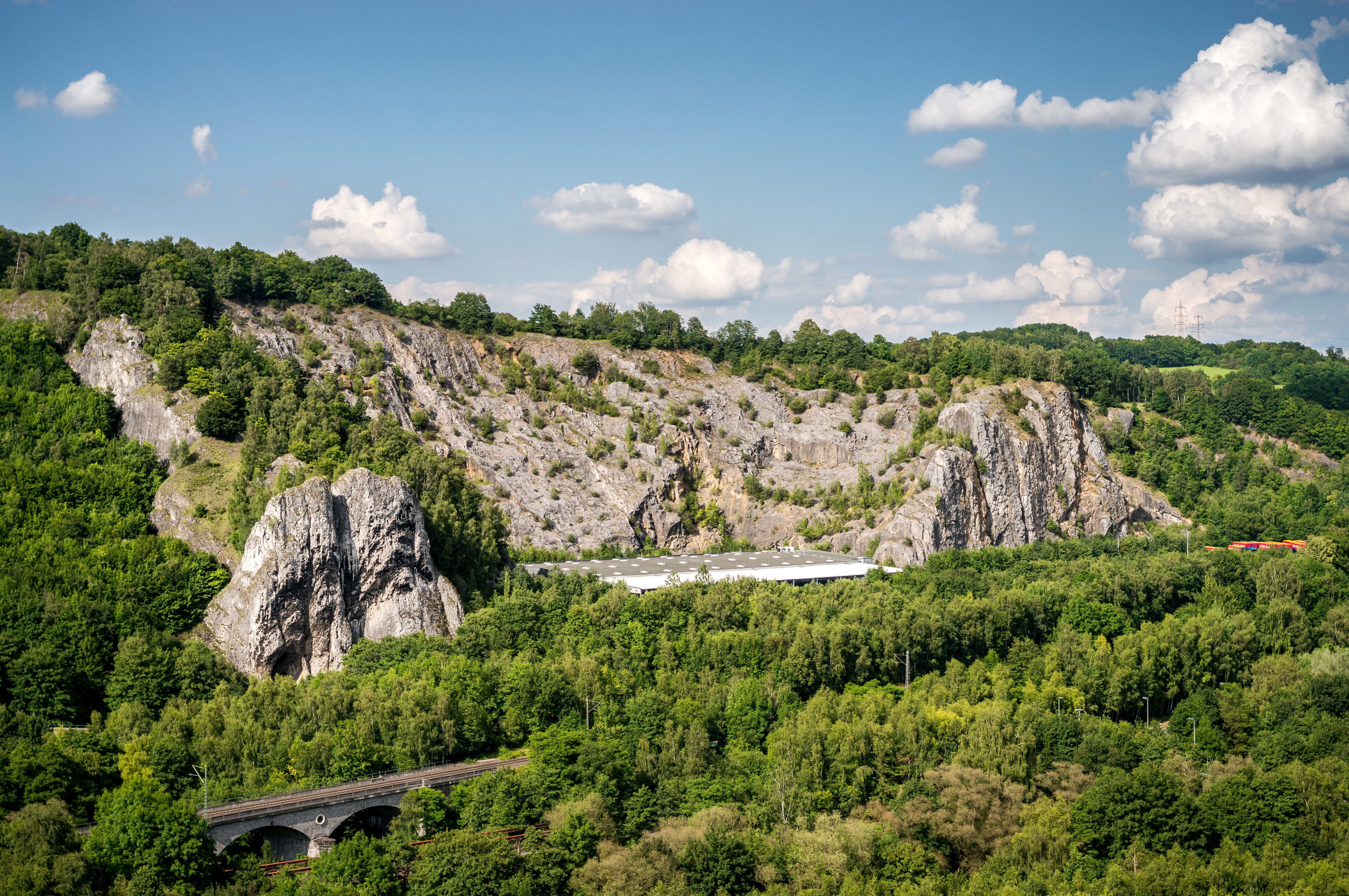 The southern flank of nature reserve Burgberg with its distinctive rock formation consisting of devonian compact limestone. On the left you can see the rock-natural monument "Pater und Nonne", which consists of two approximately 60m high rock towers. On its right side, you can see a part of the storage location of the shipping company Winner.